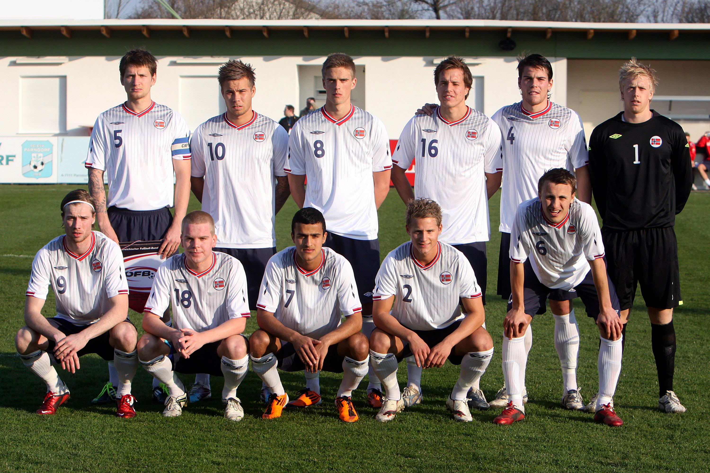 Norway U-21 before the friendly-match against the Austrian national football team (1:2), 2011-03-29 in Parndorf